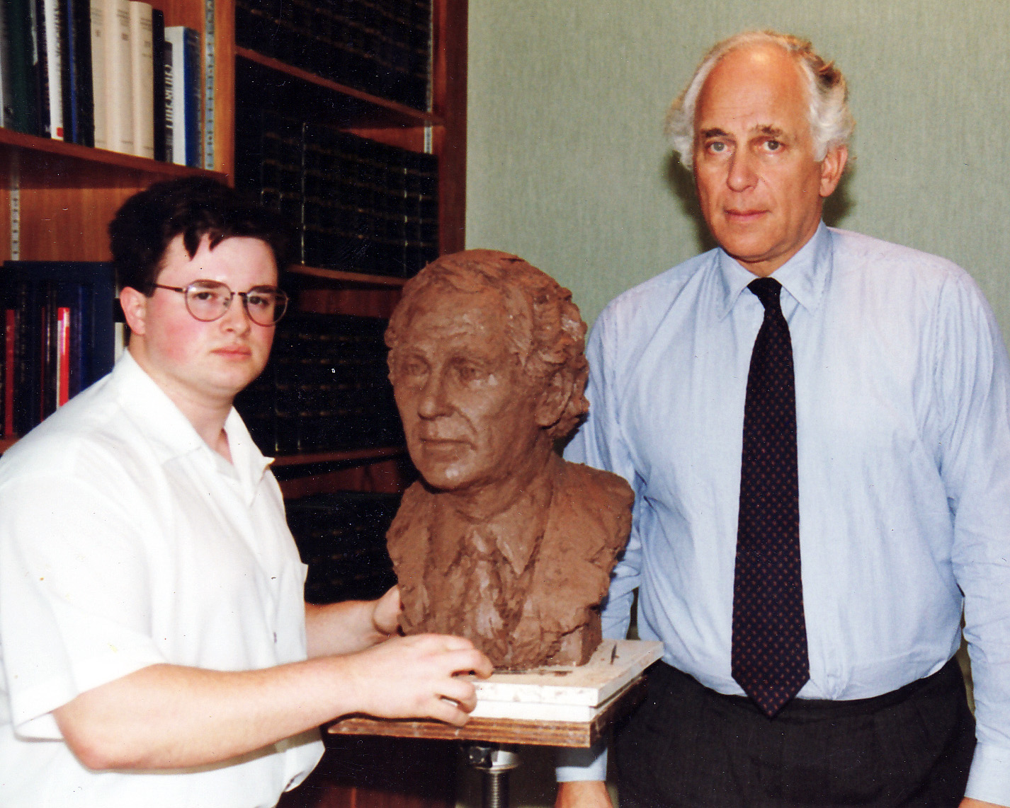 Sculpture of Evelyn de Rothschild